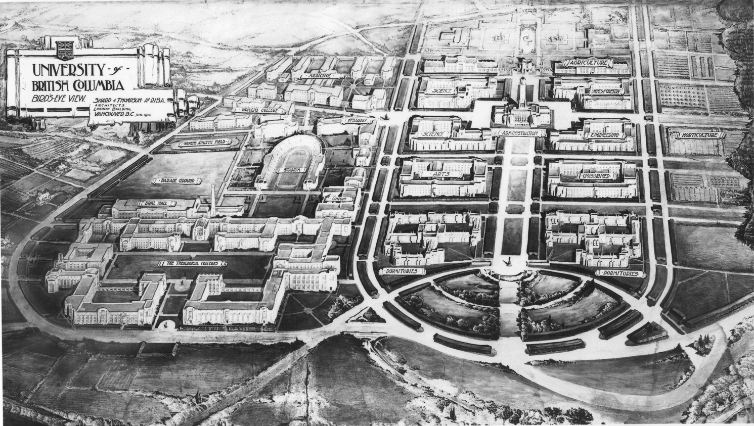 Sharp and Thompson Architects proposed plan for the University of British Columbia's Point Grey campus